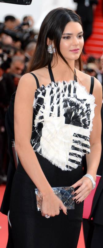 Kendall Jenner at the Cannes Film Festival